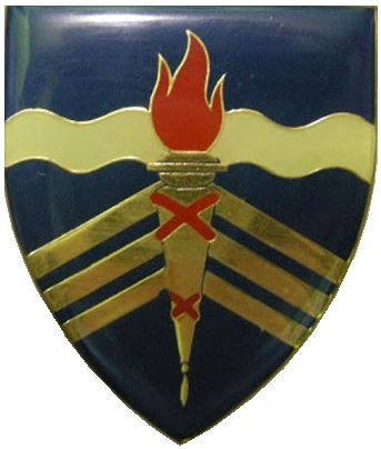 SADF Regiment Schoonspruit shoulder emblem